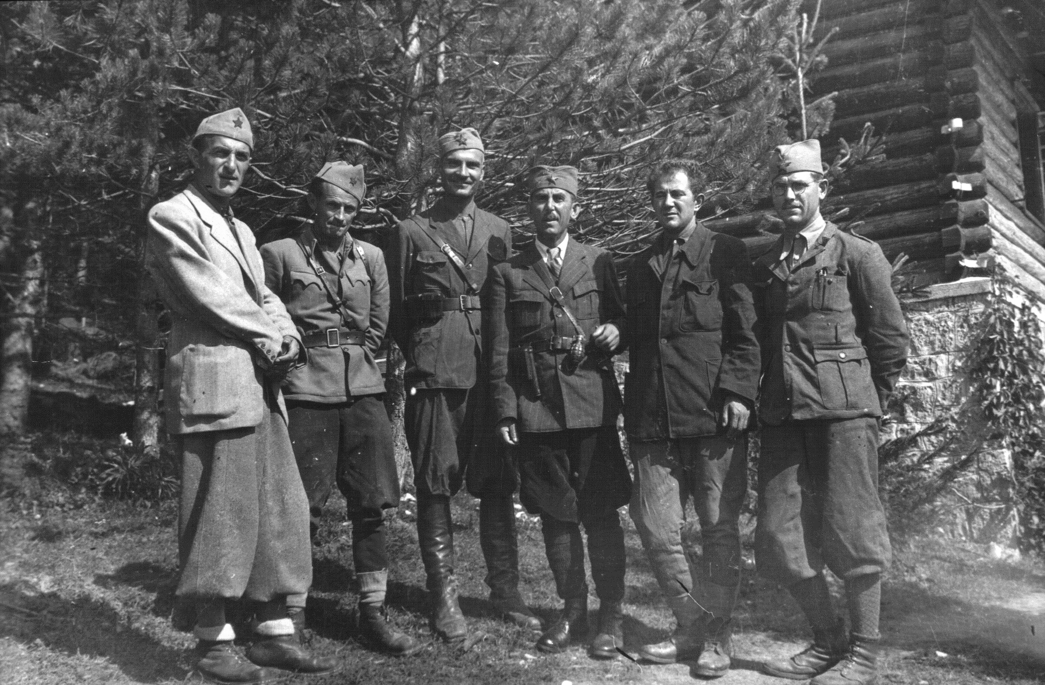 From left: Vladimir Popović, Ivan Rukavina, Arso Jovanović, Savo Orovič, Milovan Đilas and Pavle Ilič.